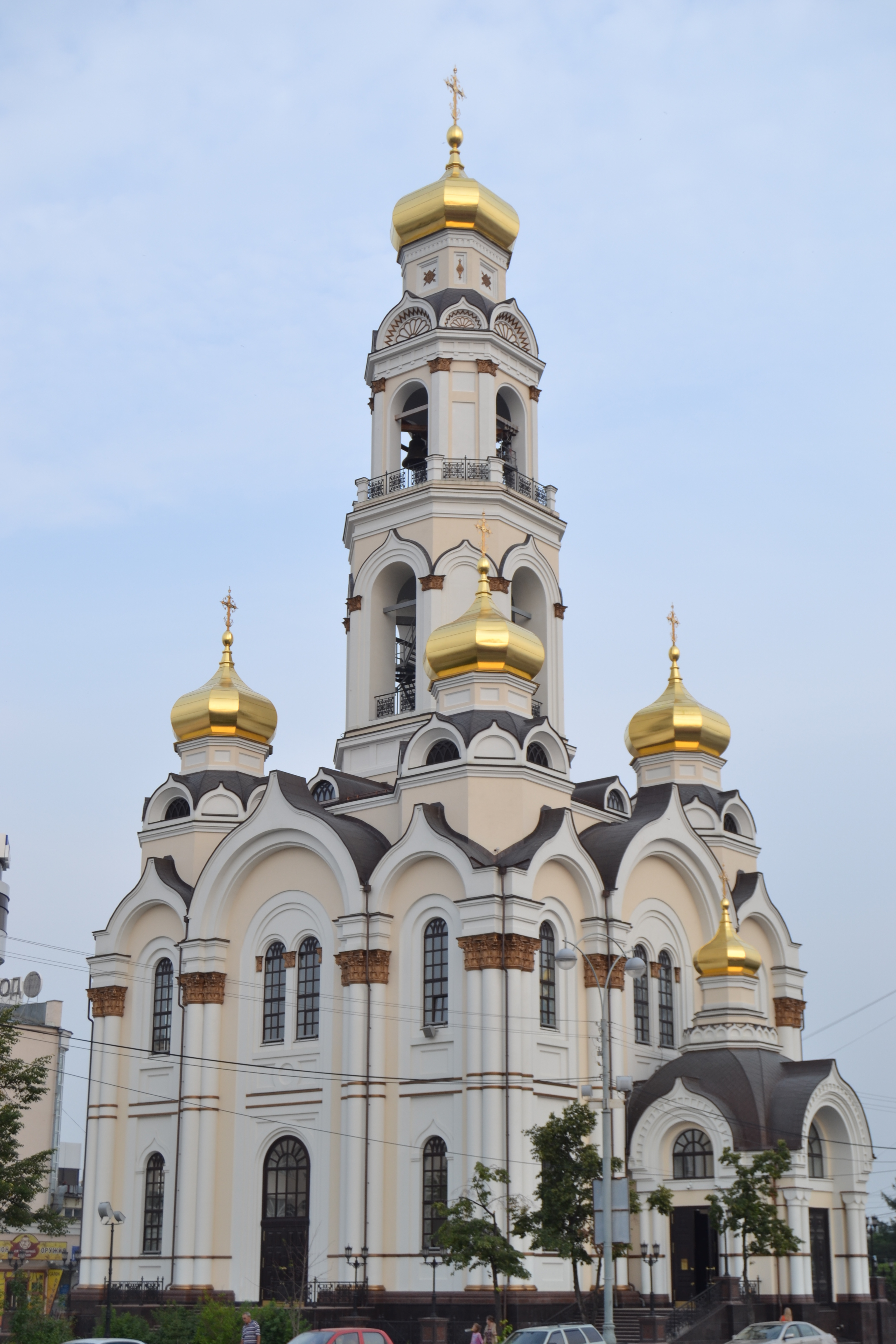 Great Zlatoust Church in Yekaterinburg